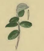 Stainton’s Natural History of the Tineina (1855–1873): Teleiodes sequax a shoot of Helianthemum vulgare spun together by larva